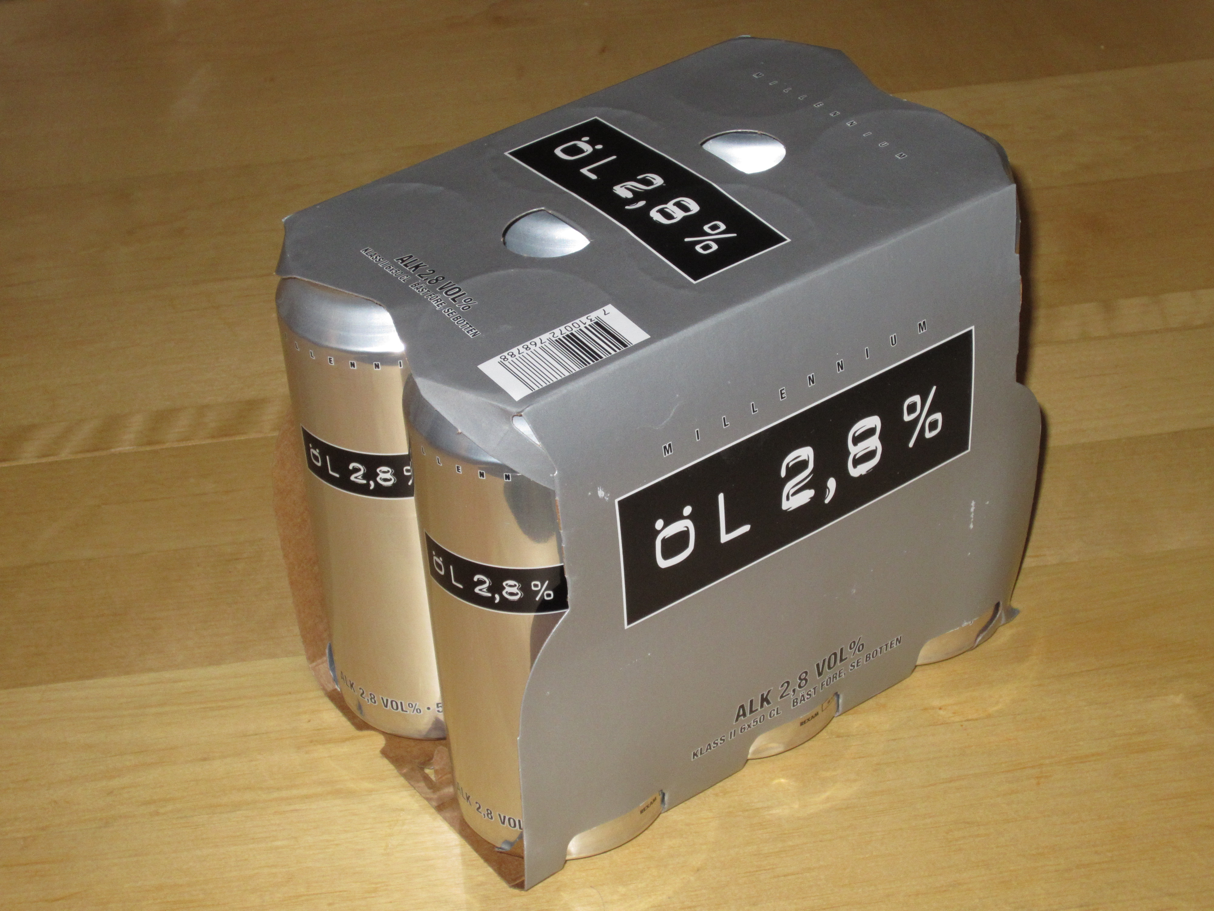 Swedish beer "Millennium"